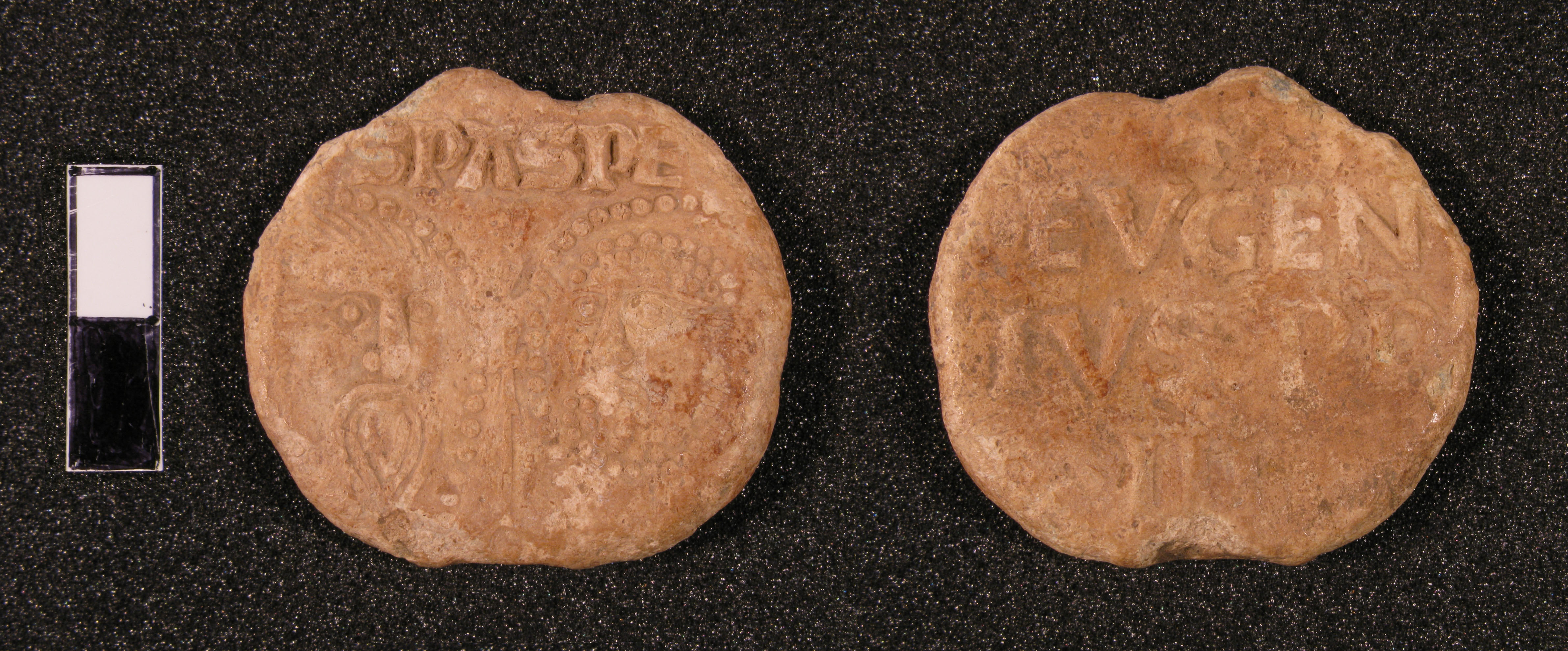 Cast lead papal bulla of Pope Eugene III (1145-53). Mass: 37.4g, diameter: 36.4mm, thickness: 5.6mm. The papal bulla is sub-circular in plan, with a notch in the top and bottom, and some loss of material from around the circumference. The front reads +/EVGEN/IVS.PP/III, on four lines. The reverse depicts St Peter and St Paul each within a pellet border. Between the two is a crozier; above are the abbreviations SPA SPE (for St Paul and St Peter). All of the designs and text on the papal bulla are in relief. The papal bulla has a light brown/off-white surface.